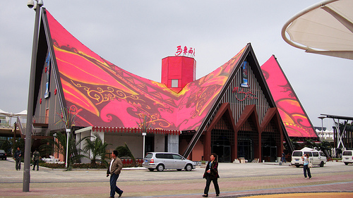 the Malaysia pavilion of Shanghai expo2010.